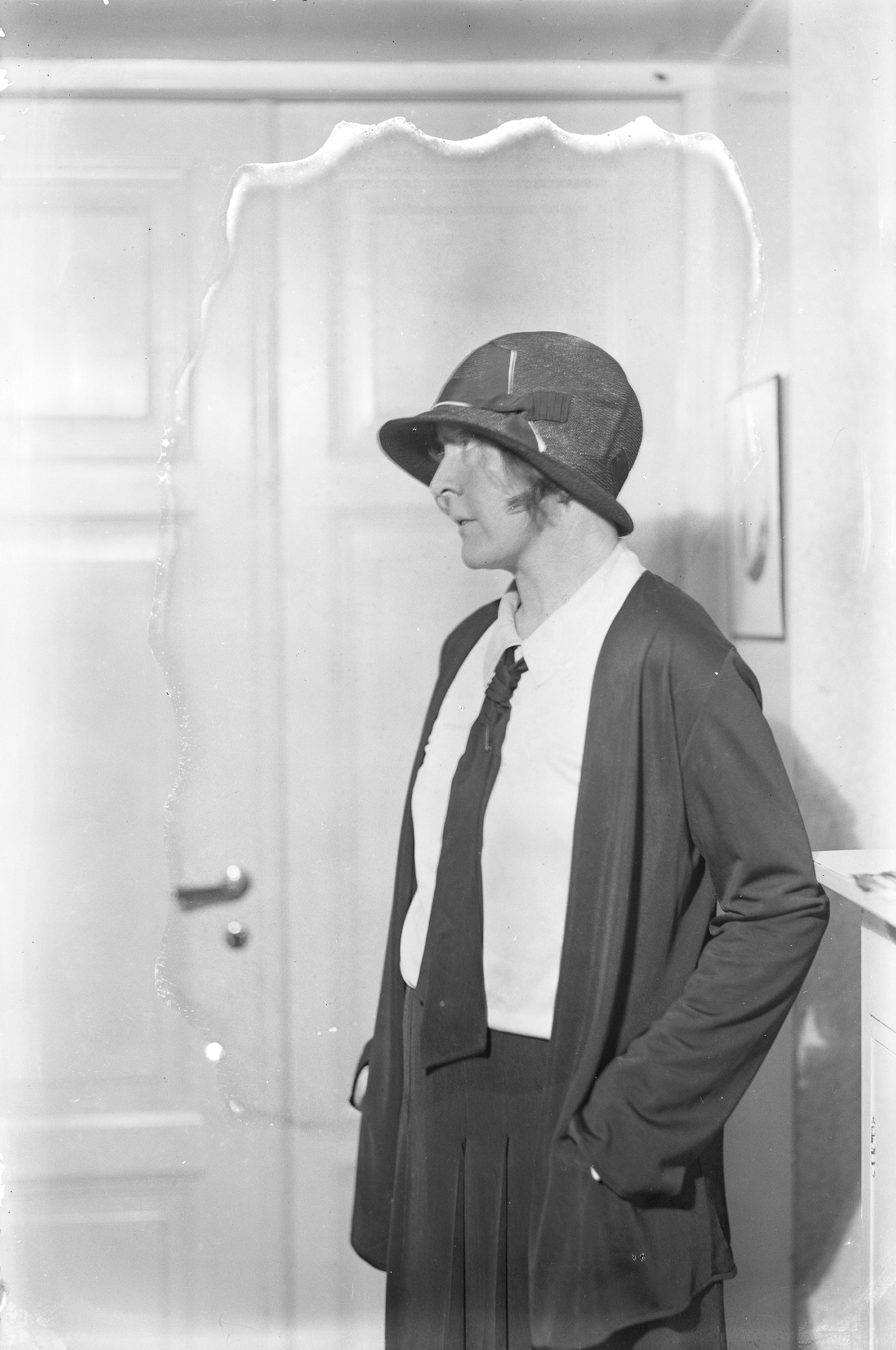 Photograph of the Finnish writer Tyyni Tuulio (1892–1991).